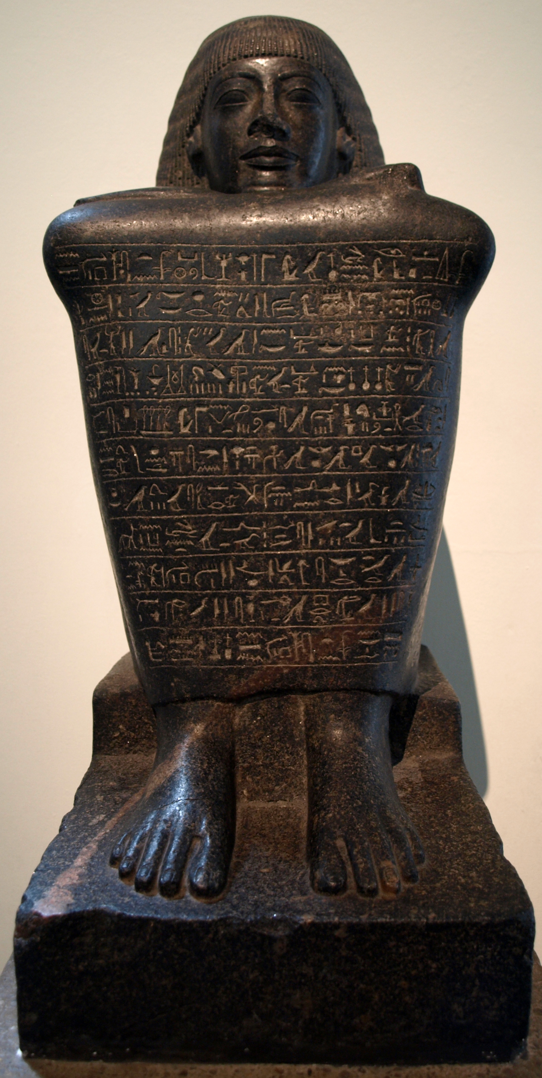 Granodiorite statue of 'high steward of Memphis' Amenhotep, circa 1400 BC. Originally from Abydos, this Amenhotep (not to be confused with one of several pharoahs of the same name) had the title 'high steward of Memphis'.